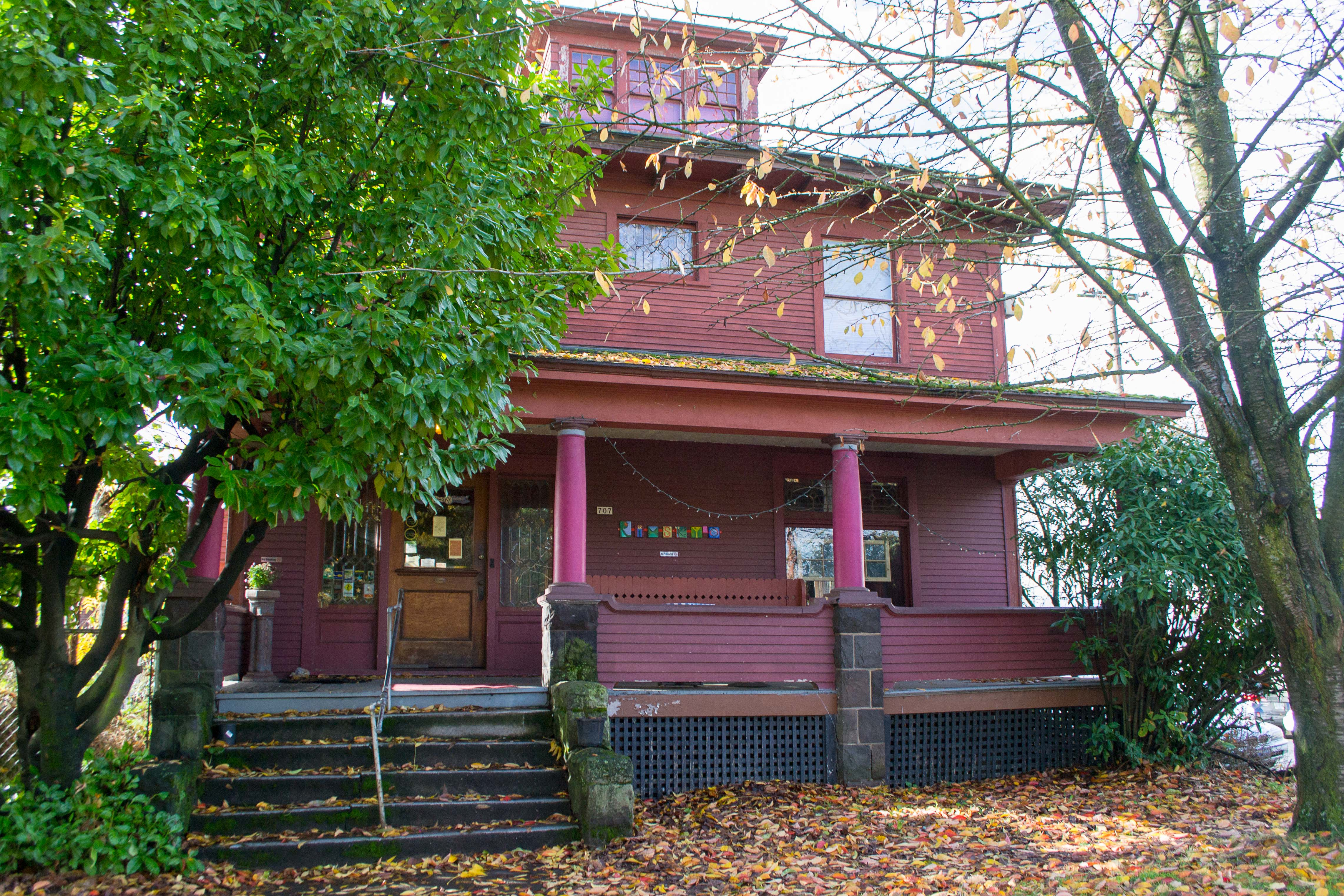 The Rimsky-Korsakoffee House in Portland's Buckman neighborhood